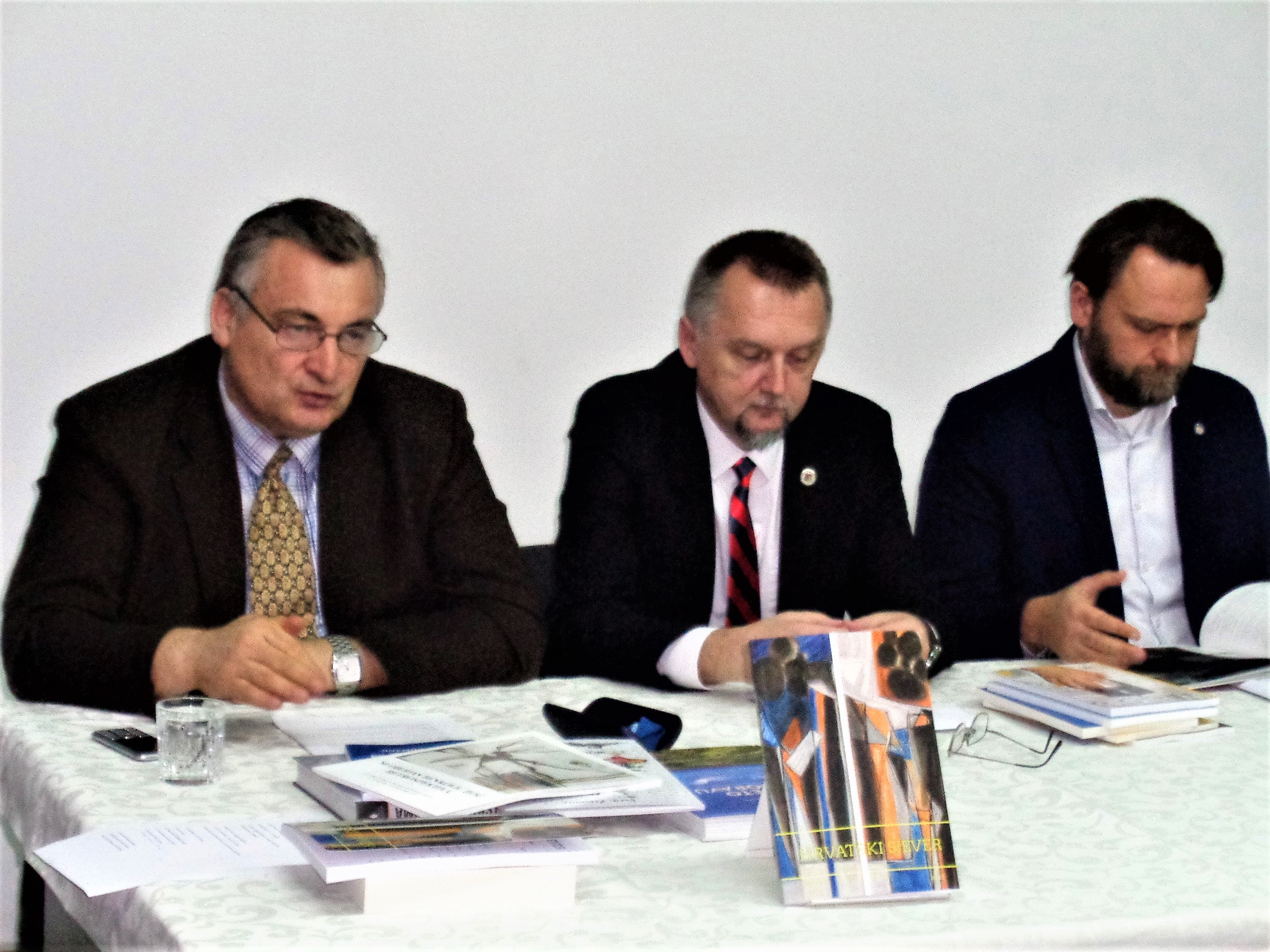 "Hrvatski sjever" scientific journal promotion in Čakovec, Croatia, on December 20th, 2019